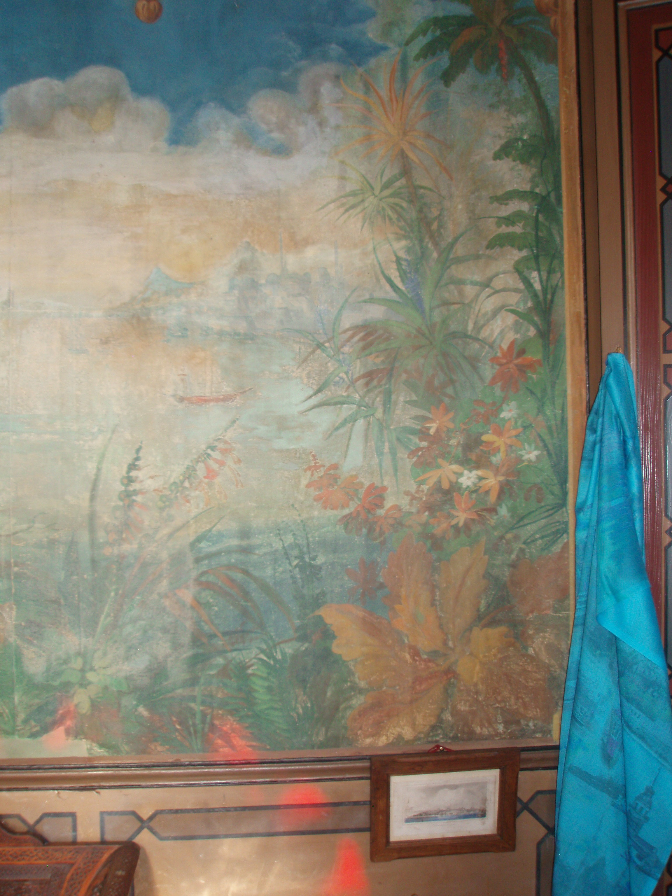 amharic in Casamaures, historical monument in Saint-Martin-le-Vinoux.